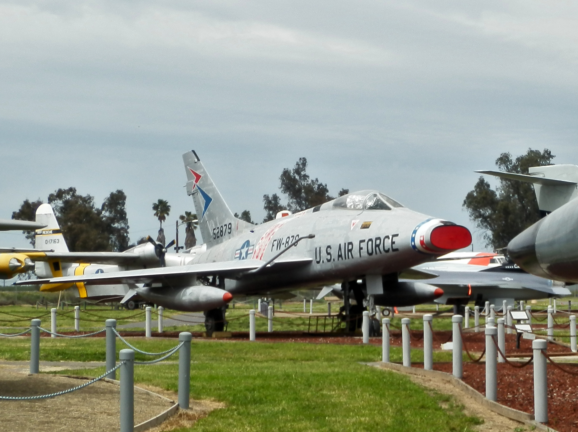 North American F-100 Super Sabre at Castle Air Museum Atwater